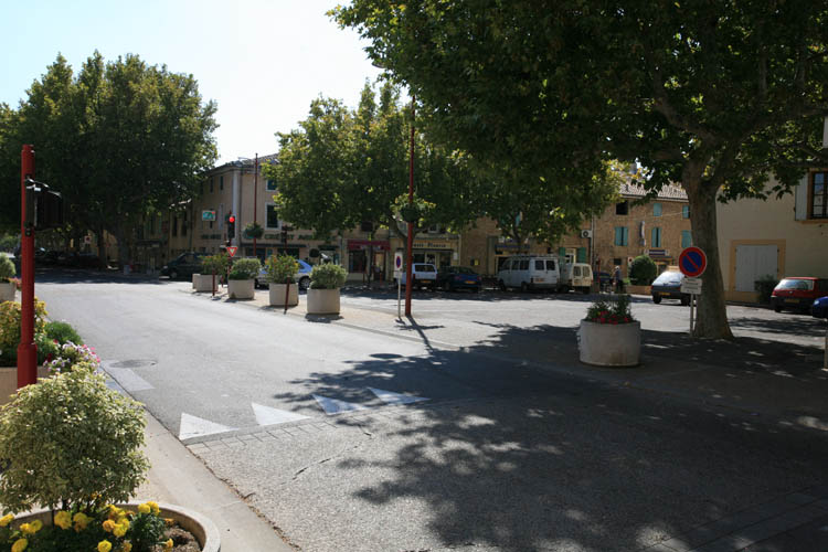 the village of Jonquieres, Vaucluse, France